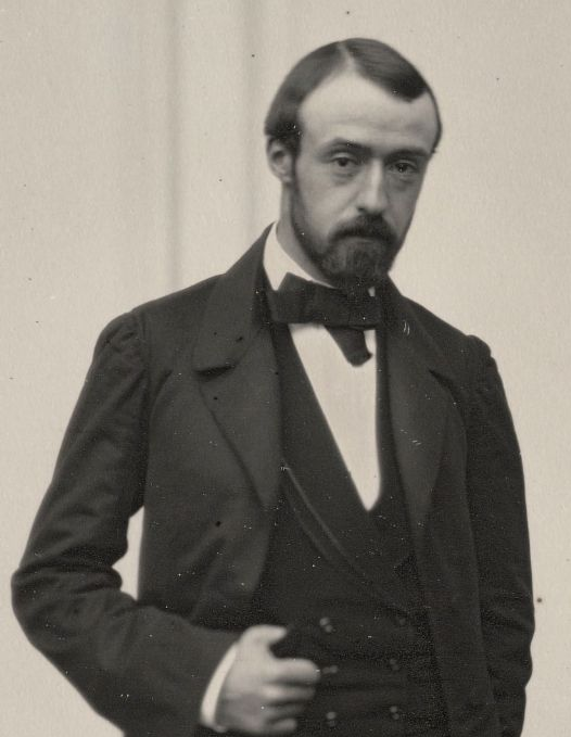 Detail of daguerreotype featuring Alexander Agassiz (1835-1910), sAg 168.70.1, Ernst Mayr Library of the Museum of Comparative Zoology, Harvard University